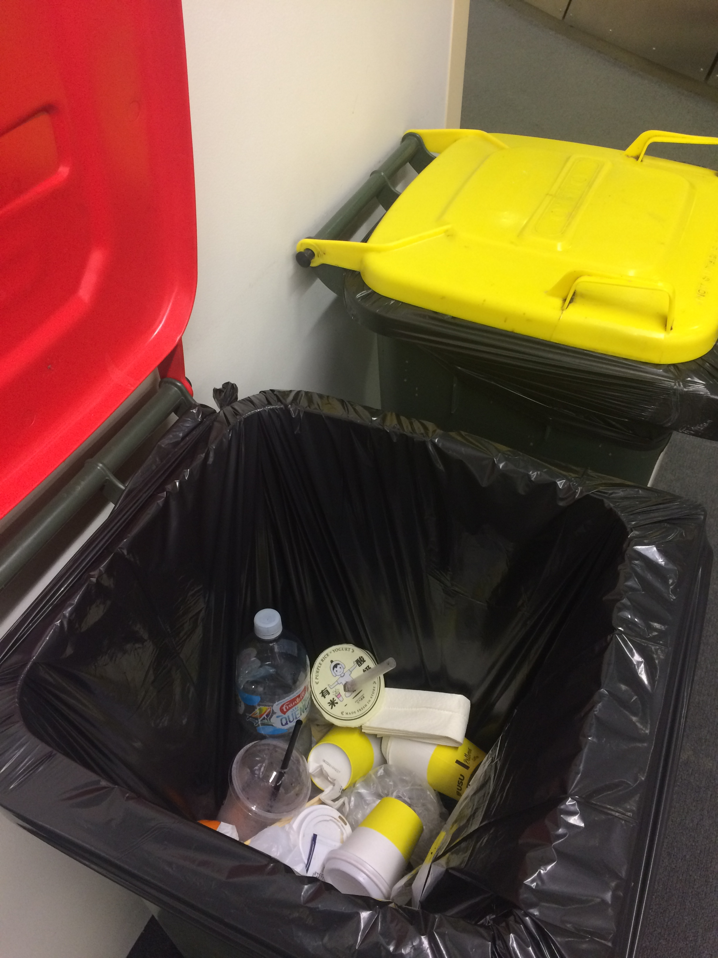 a red waste bin (garbage) has materials, like plastic bottles, straws and plastic containers that could have been recycled in the yellow been (yep, recycling)